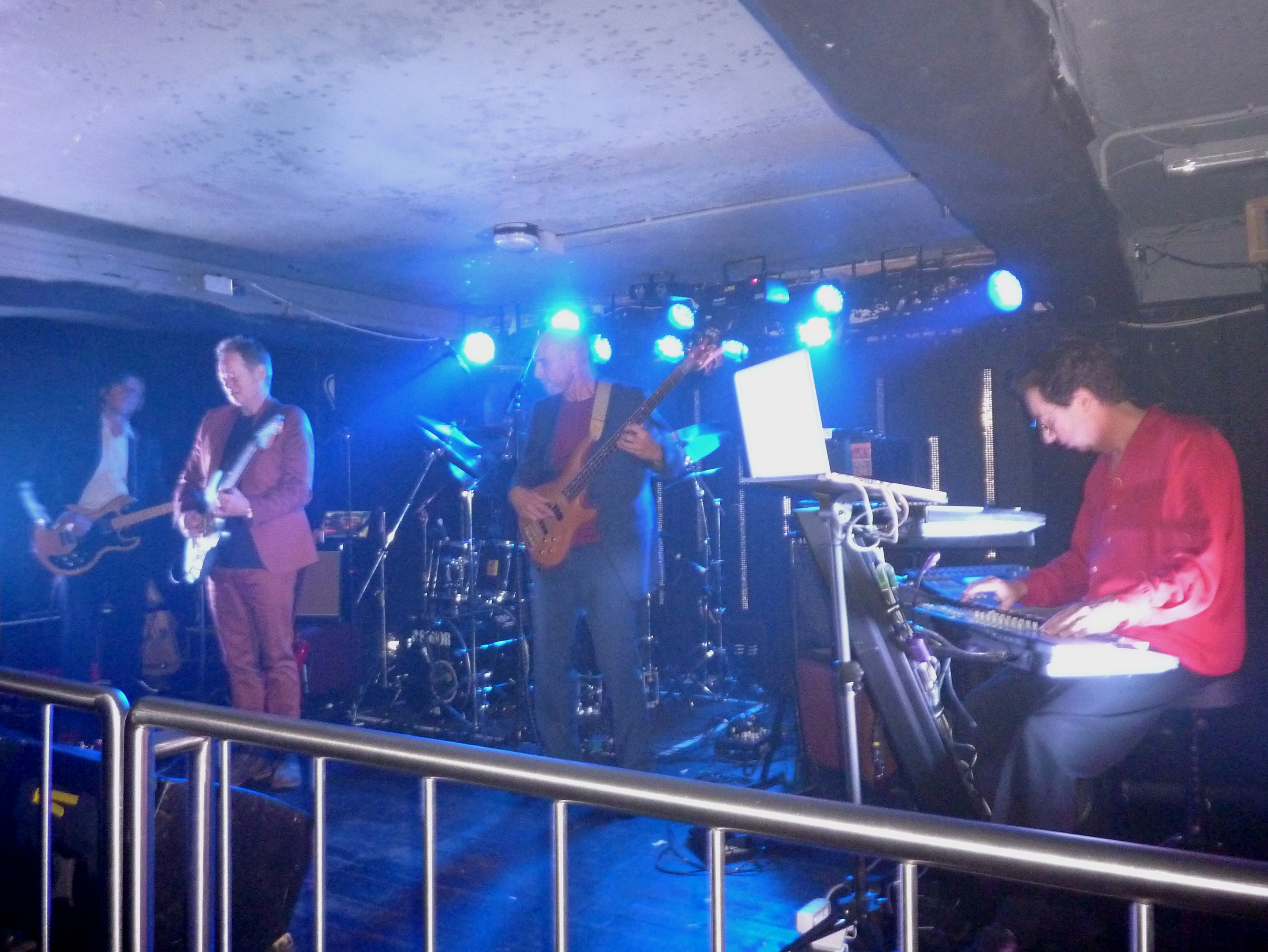 Agitation Free @ NQ Live, Manchester 9/11/2012